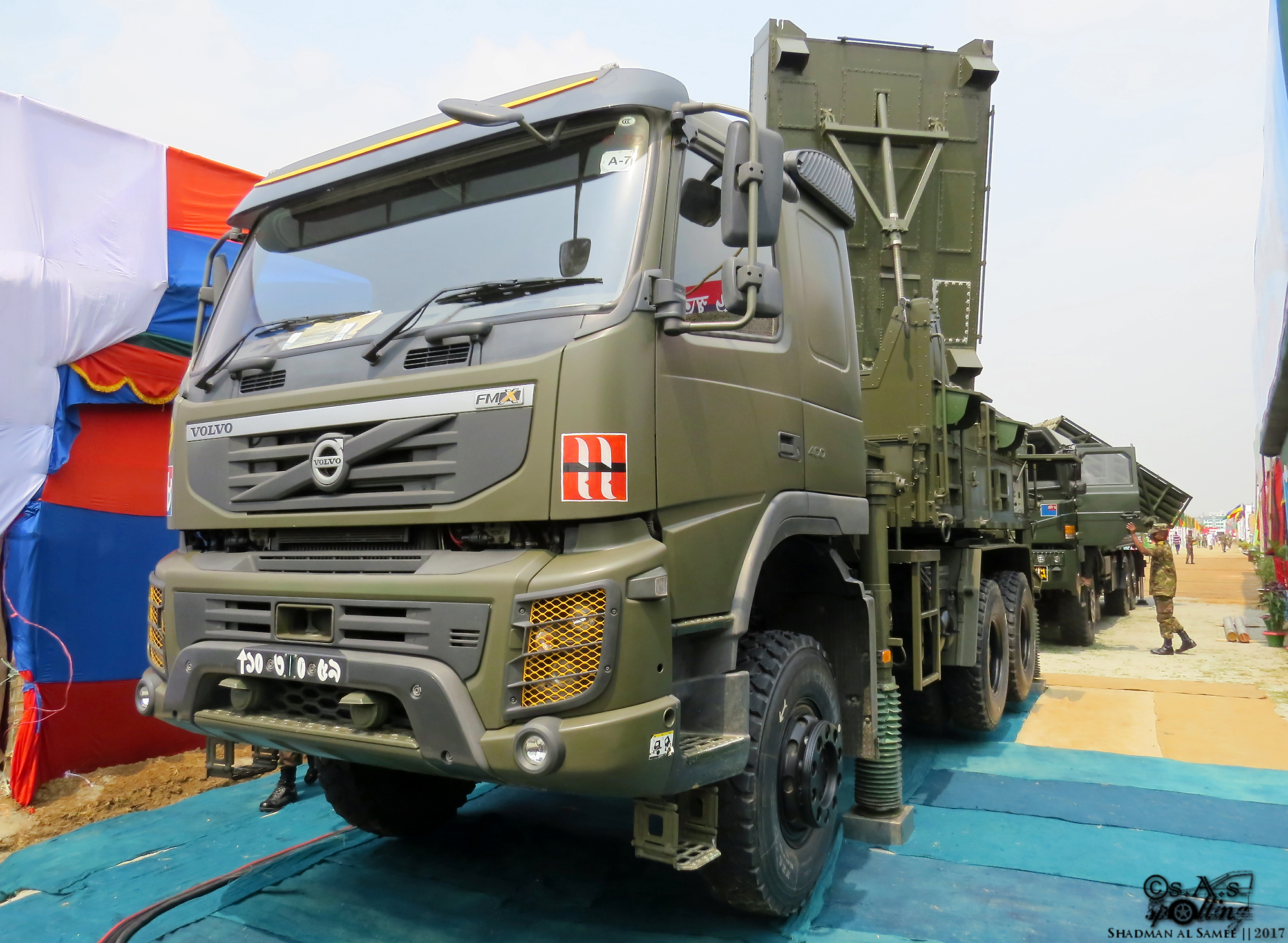 VGTJ/ MHD 2017: The FM400 cab's really comfy!